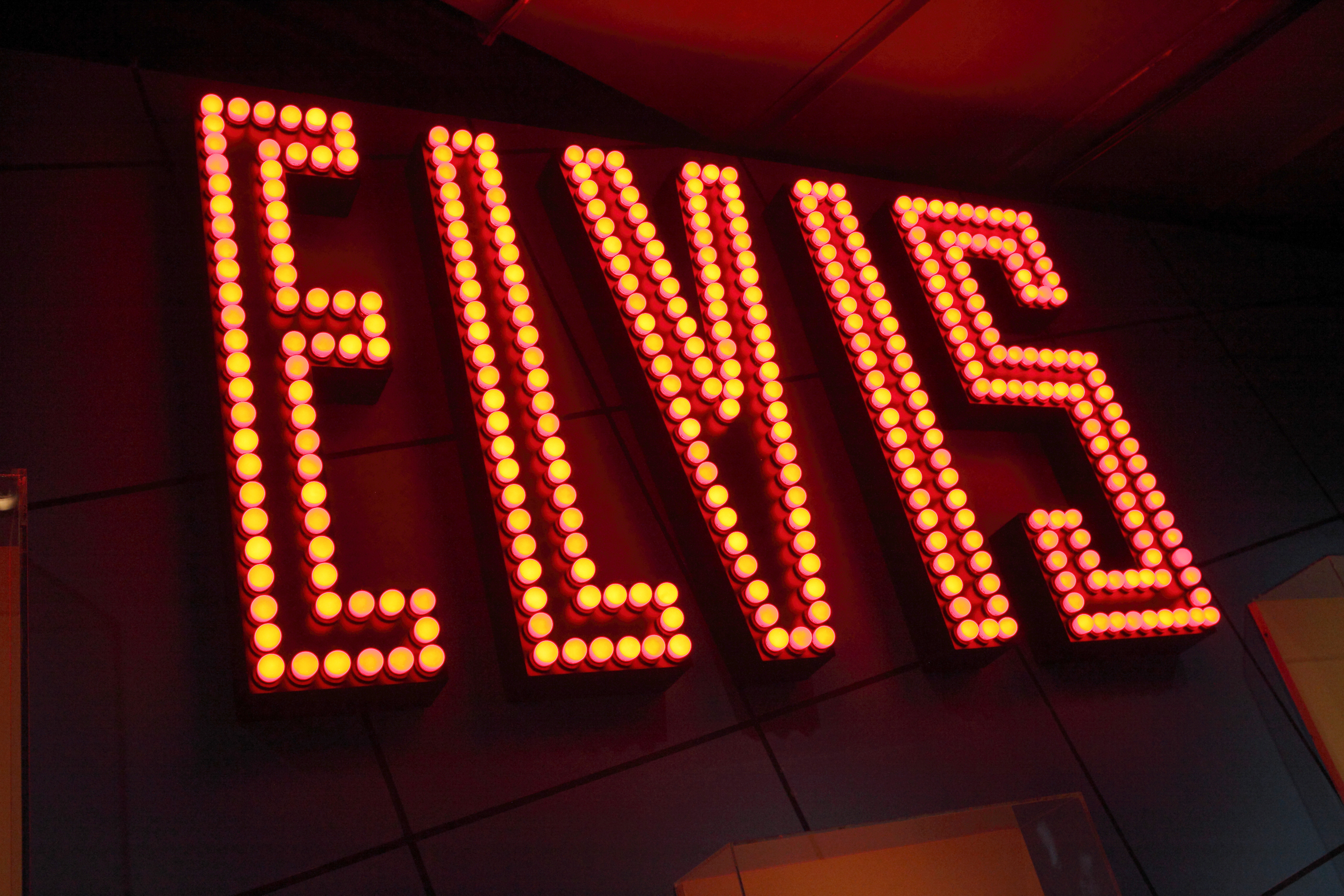 Elvis in lights at the Rock and Roll Hall of Fame in Cleveland, Ohio. Flickr Tags: ohio lights cleveland elvispresley rockandrollhalloffame. Flickr Tags: Rock and Roll Hall of Fame Cleveland Ohio. from Flickr album "Rock and Roll Hall of Fame" by Sam Howzit